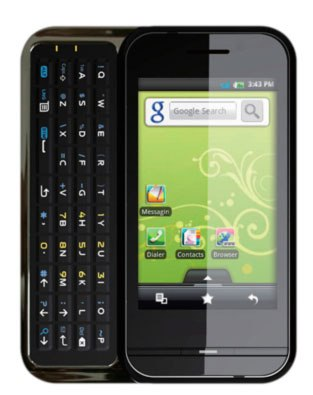 Highscreen Zeus